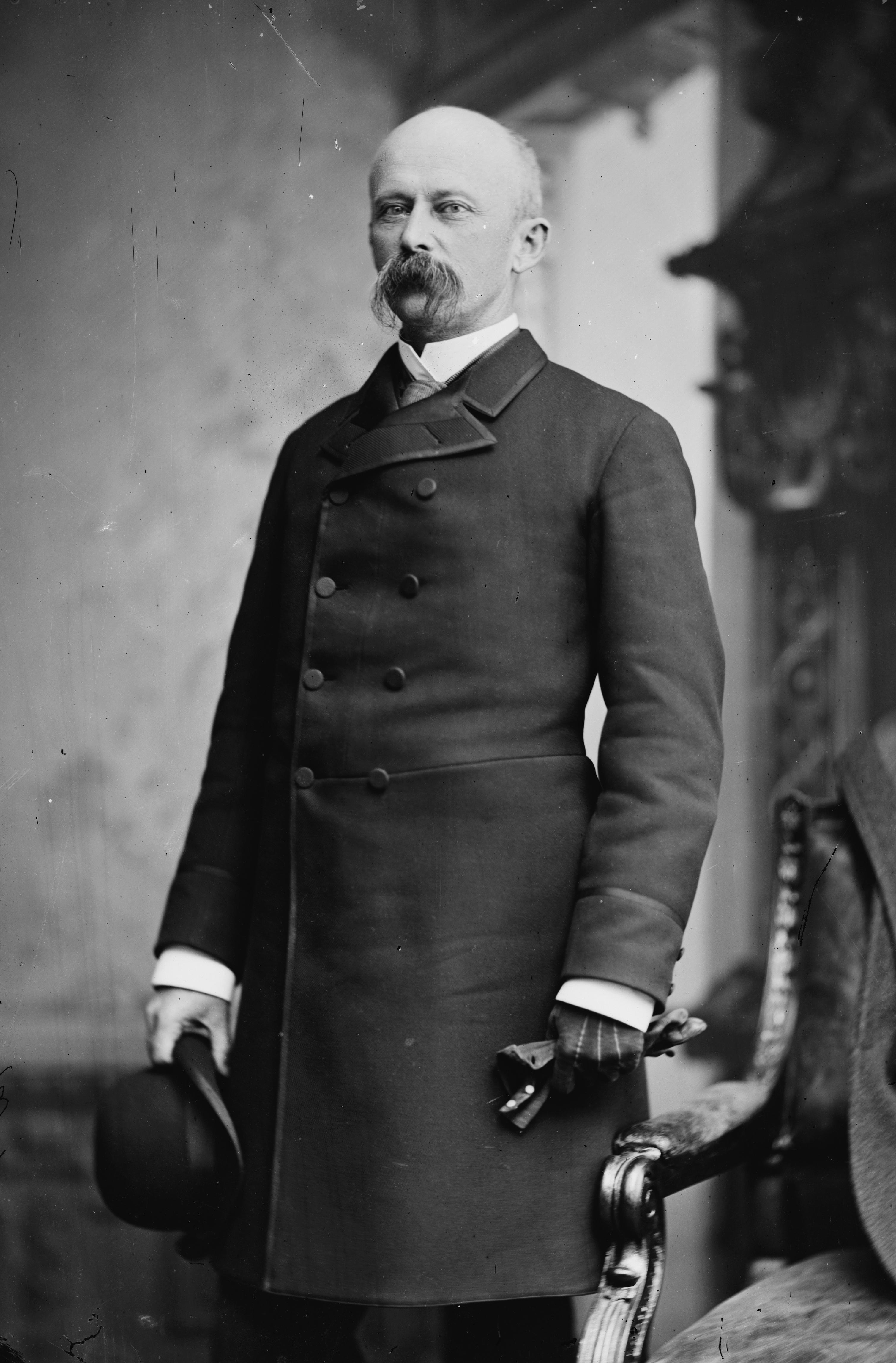 Middleton P. Barrow. Library of Congress description: "Barrow, Senator Middleton P. of GA, Aide-de-camp to Gen. Howell Cobb, CSA"